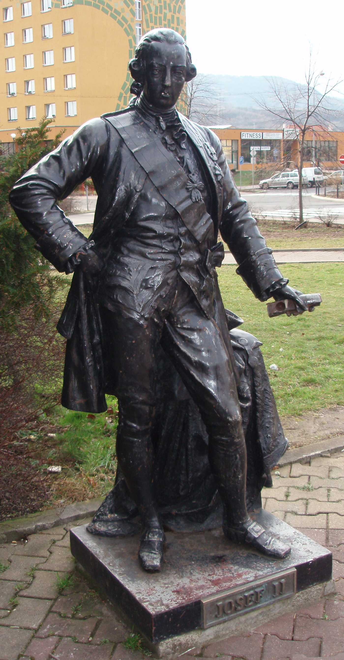 Statue of Emperor Josef II. in Kadaň, park along Komenského street.